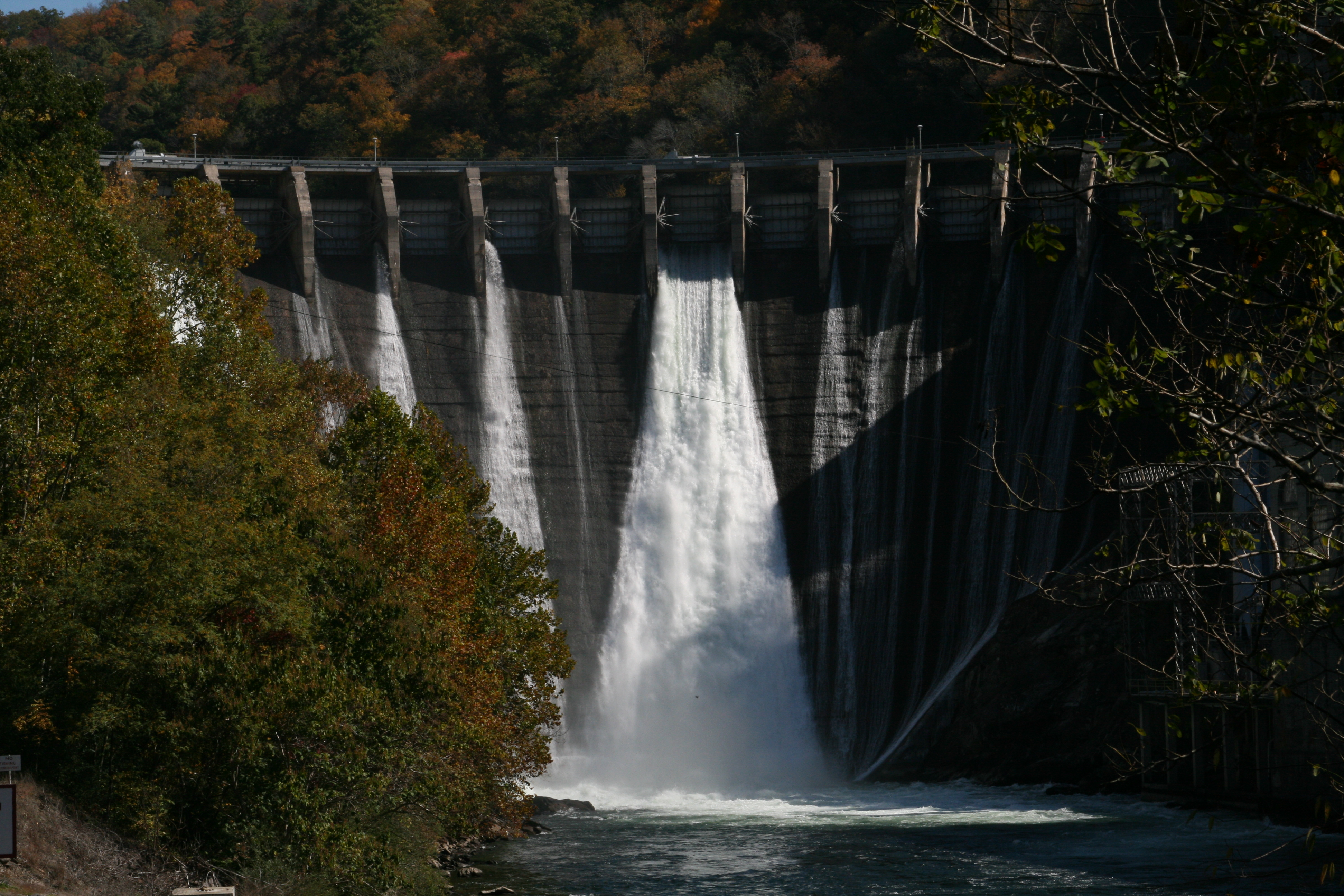 Tapoco Dam in Graham County North Carolina